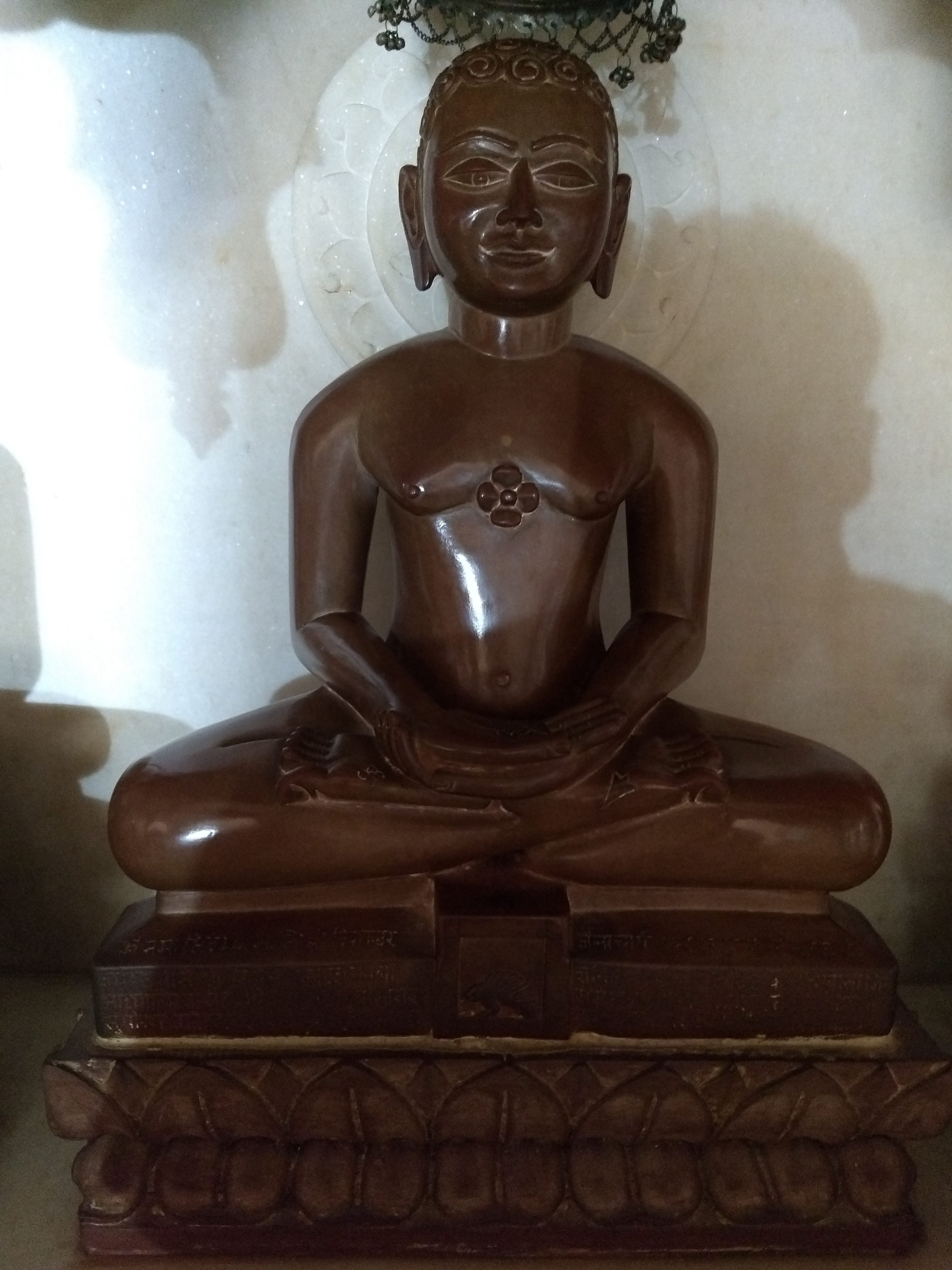 Jain statues in Anwa, Rajasthan